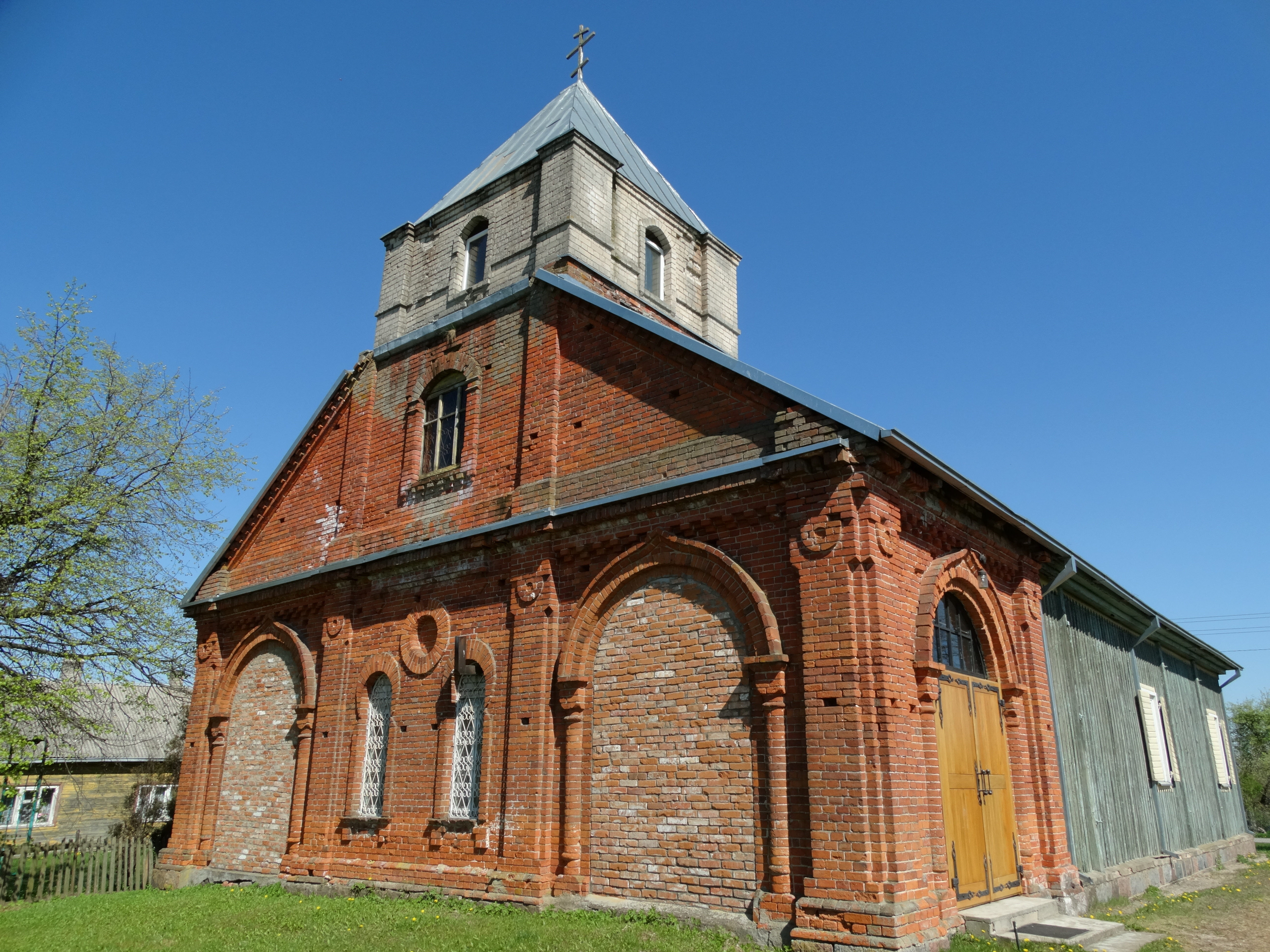 Orthodox Church of Old Believers in Ibėnai, Kaunas District, Lithuania